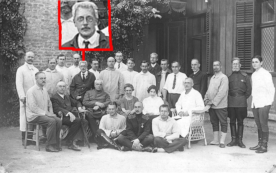 Russian emigration in Yugoslavia. Davatc; Wrangel, etc. Health resort, 1925 g.